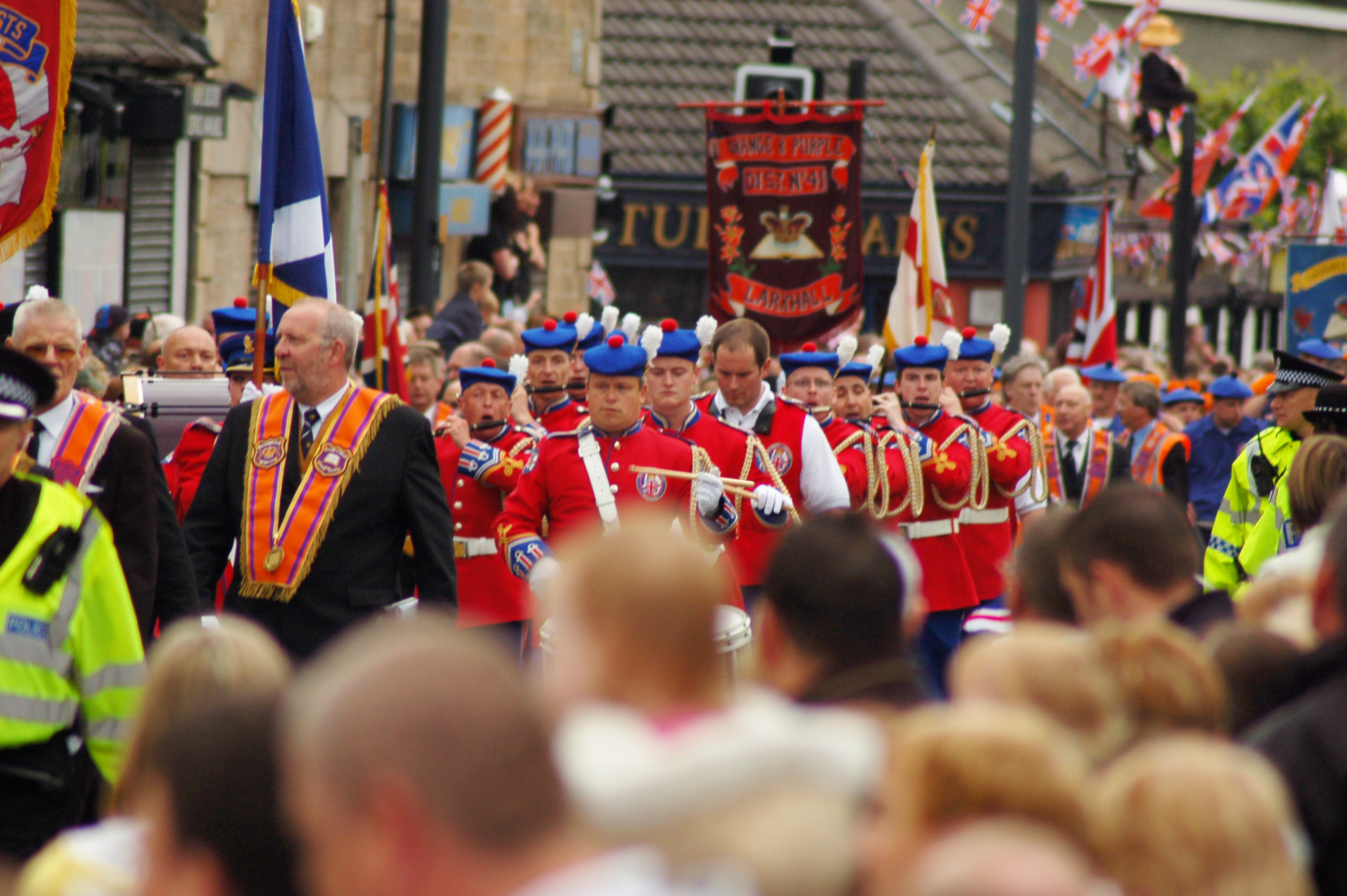 Orange Parade in Larkhall, Scotland, United Kingdom.